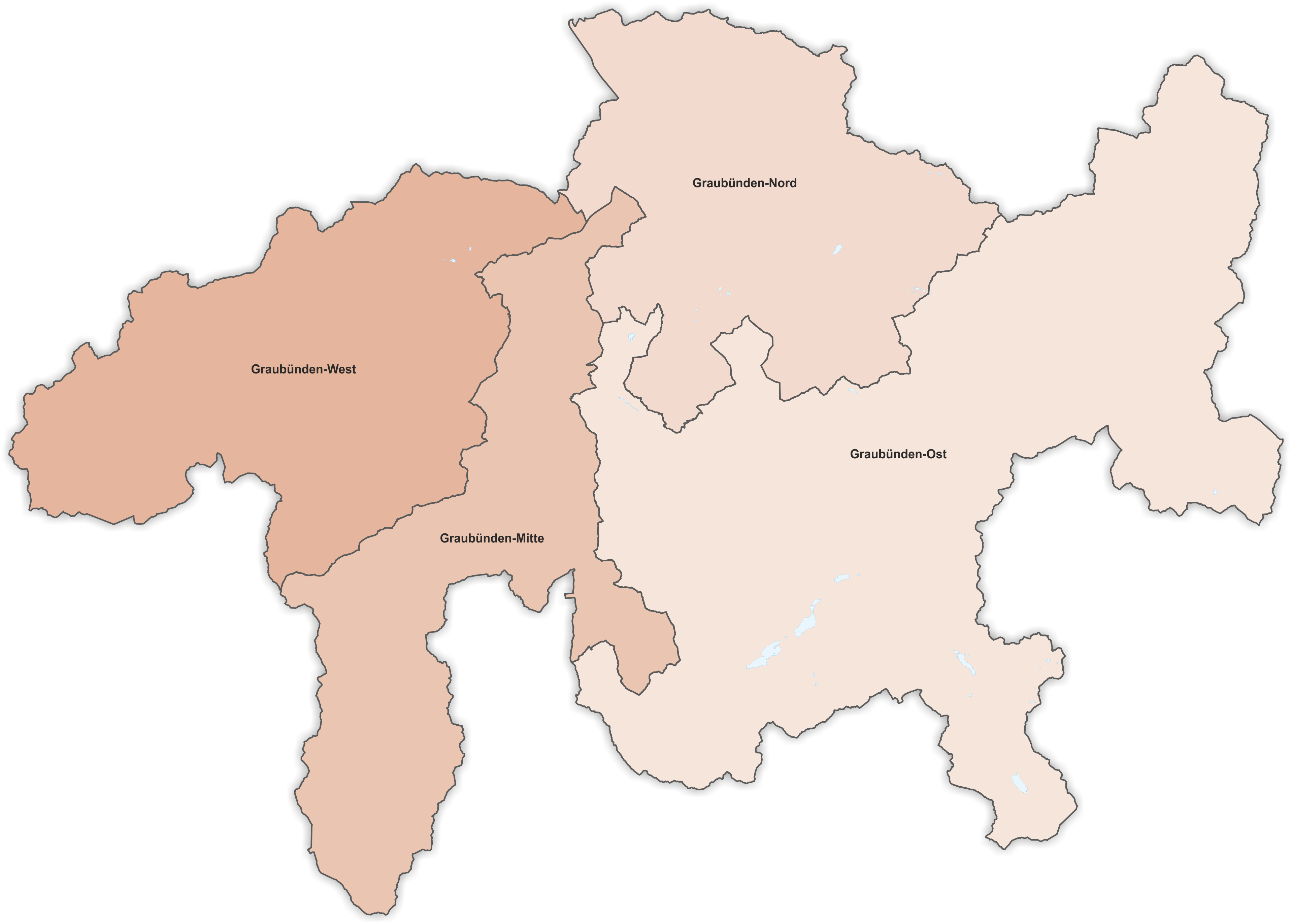 National council constituencies in the canton of Graubünden from 1848 to 1860